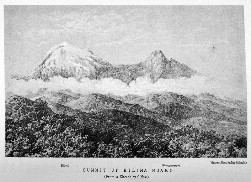 Kilimanjaro, sketch by Charles New